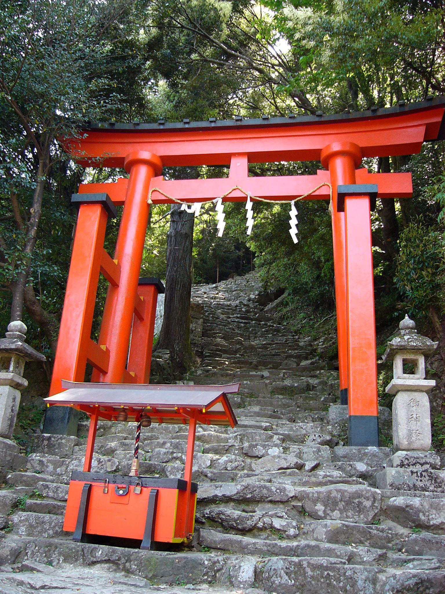 Kamikura-jinja, Shingu, Wakayama prefecture, Japan